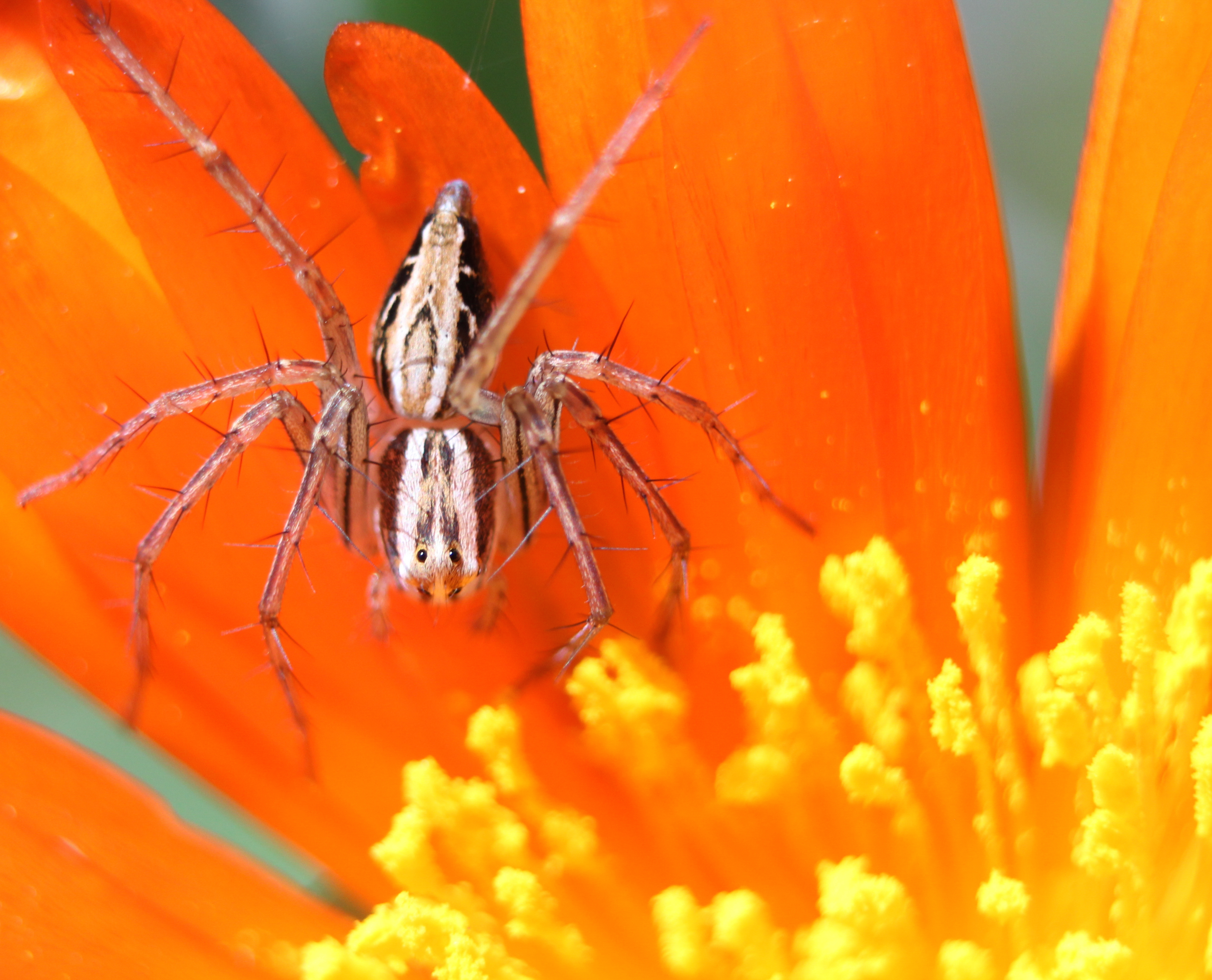 Graceful-legs Lynx Spider